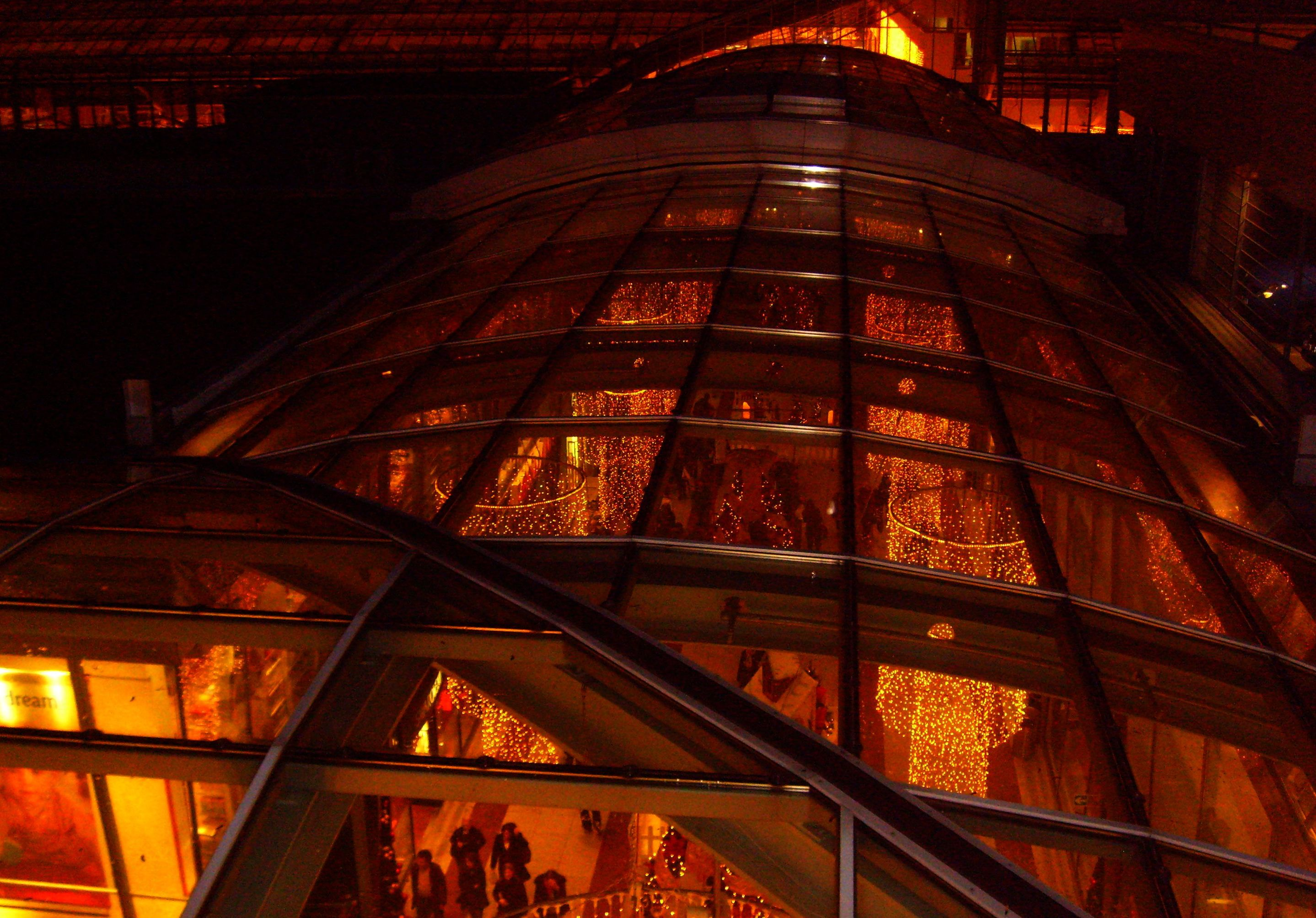 Frankfurt (Main) Nordwestzentrum Mall during Christmas 2009 Shopping